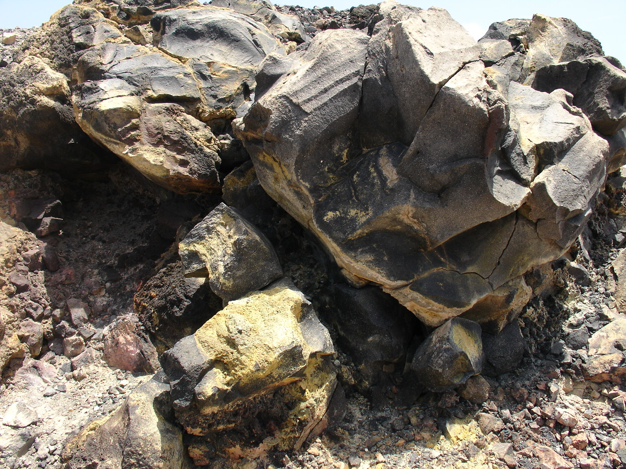 Deposit from hydrogen sulphide (volcanic rock in Nea Kameni, Santorini, Greece)